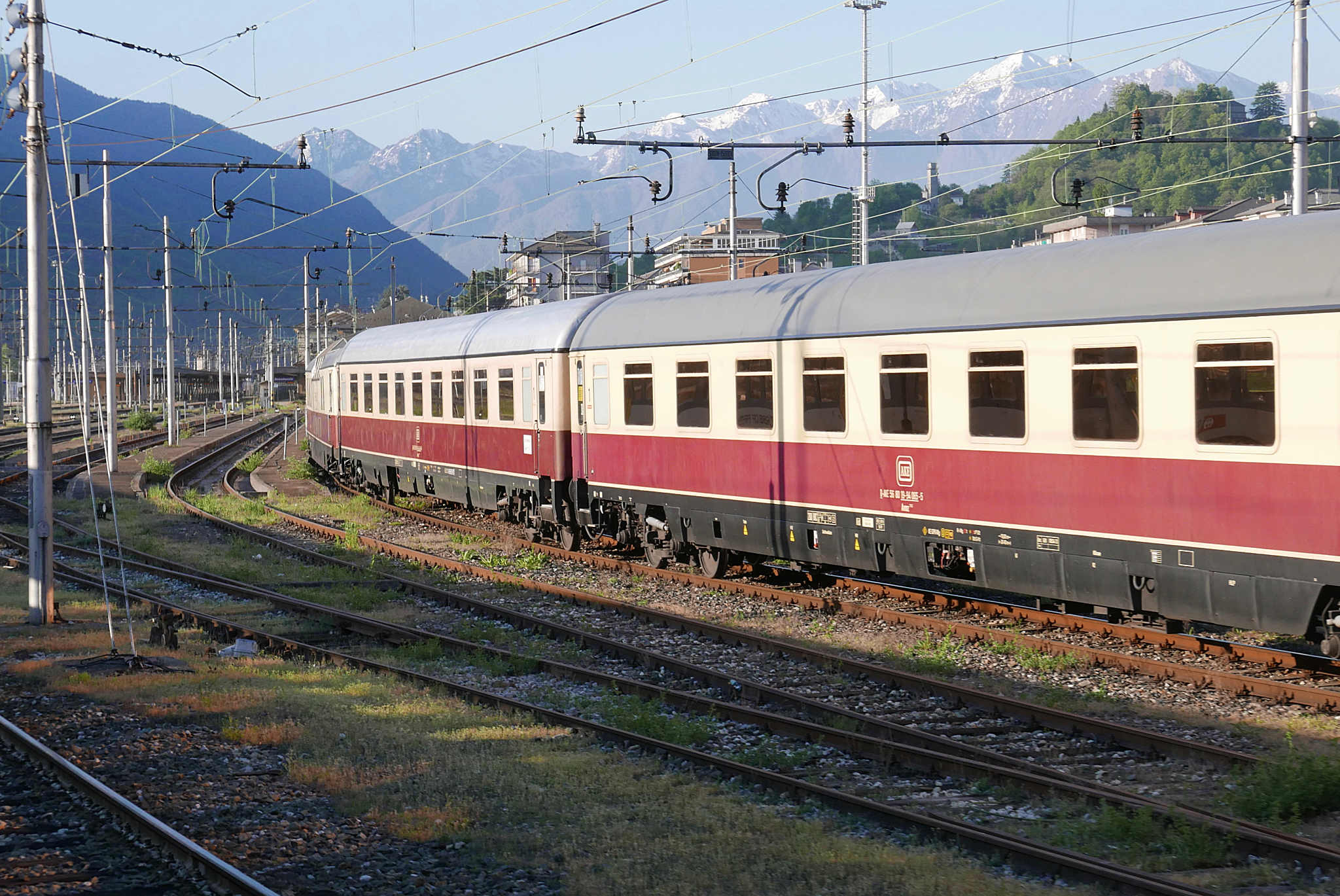 AKE Rheingold at Domodossola railway station.